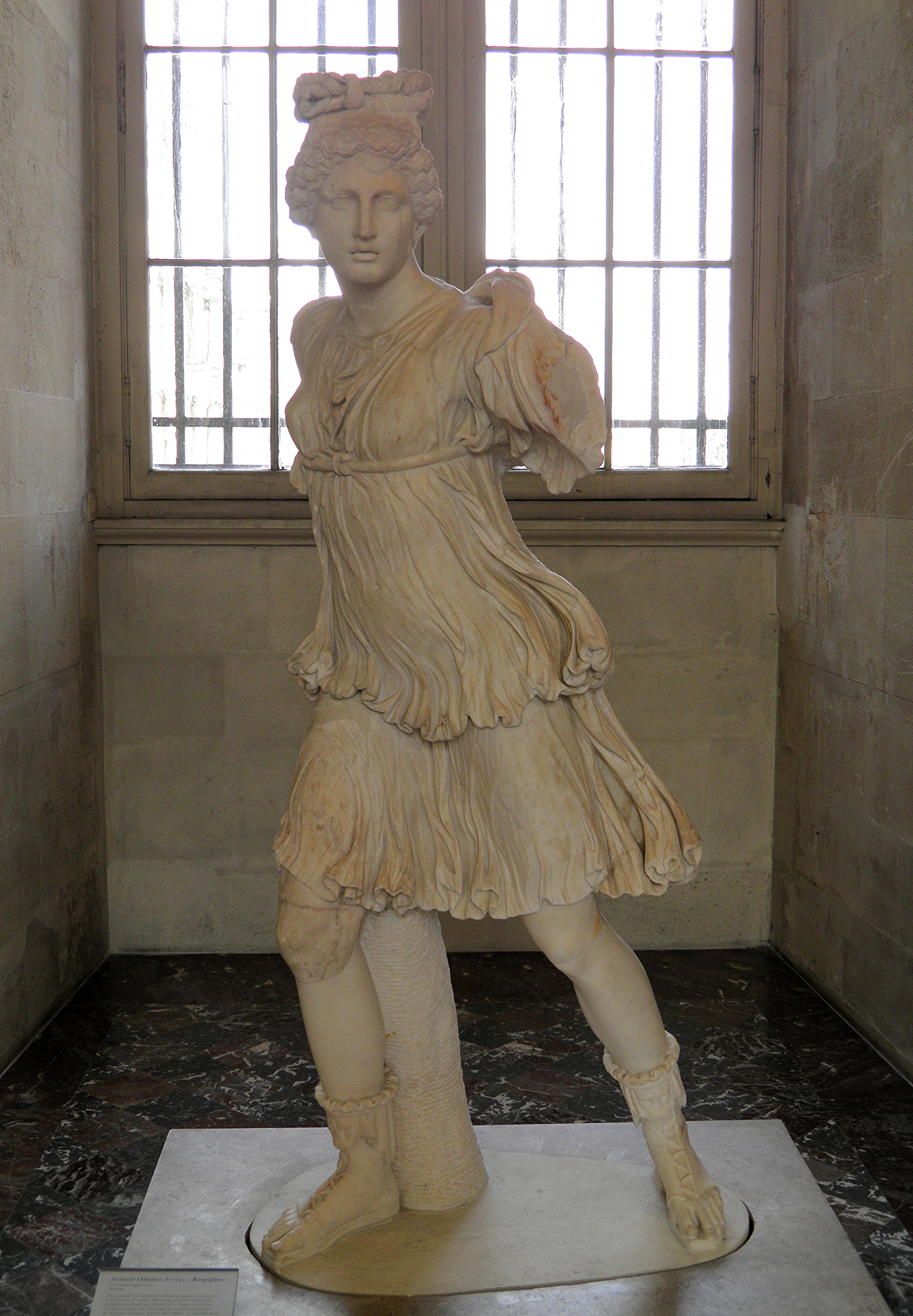 Artemis of the Rospigliosi type. Marble, Roman copy of the 1st–2nd centuries CE after a Hellenistic original, maybe the bronze group mentioned by Pausanias (I, 25, 2), which represented a gigantomachia. Dimension: H. 1.63 m (5 ft. 4 in.) Department of Greek, Etruscan and Roman Antiquities, Sully wing, ground floor, room 17